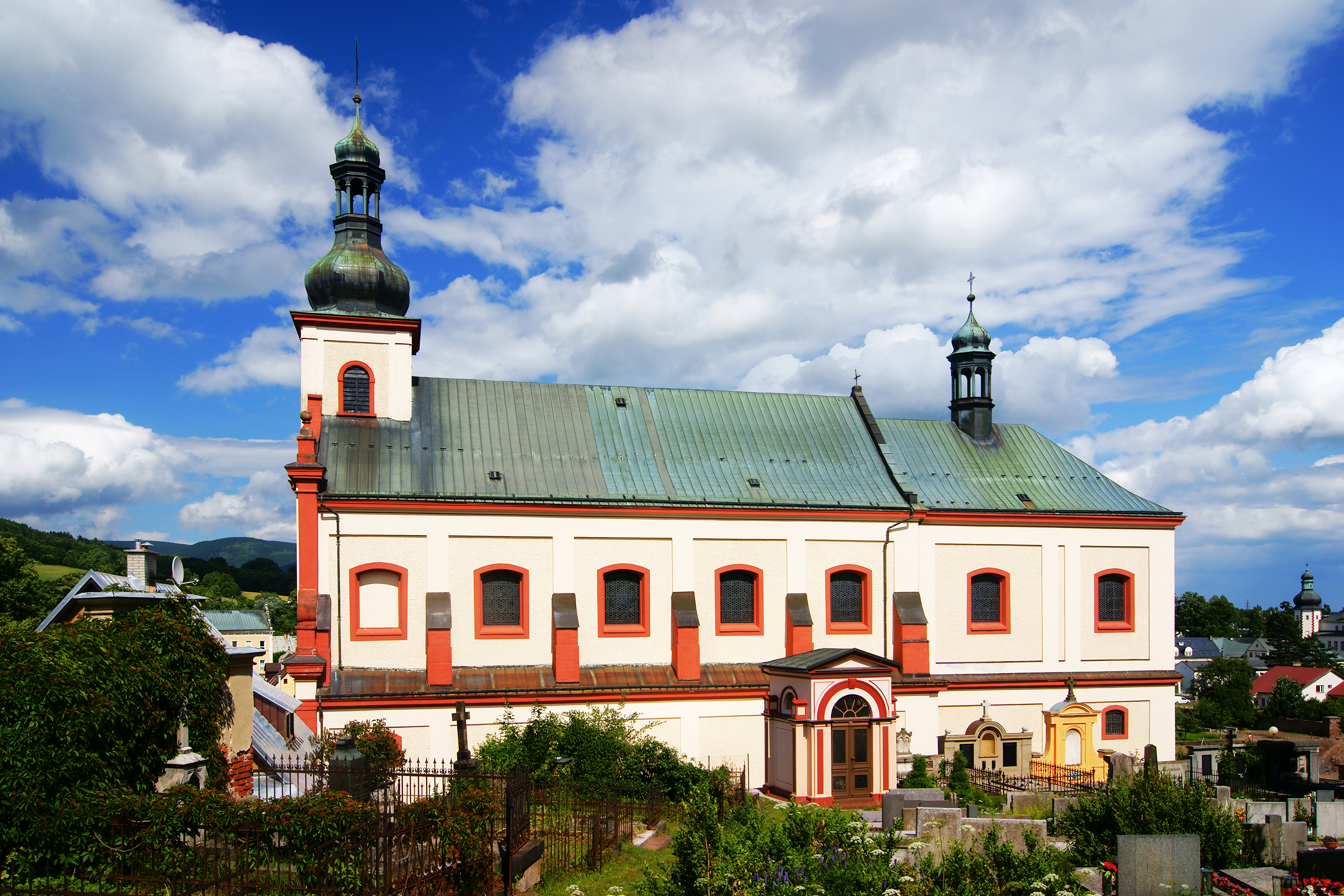 Vrchlabí (Czech Republic), church of St. Augustin.